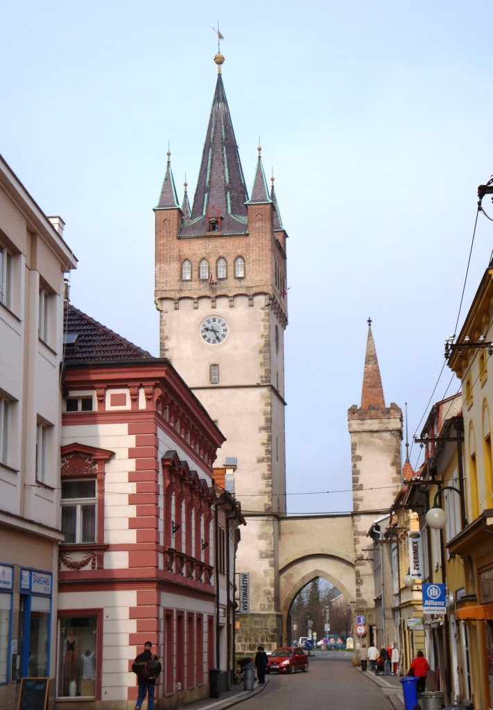 Vysoké Mýto, Prague tower (around 1350)